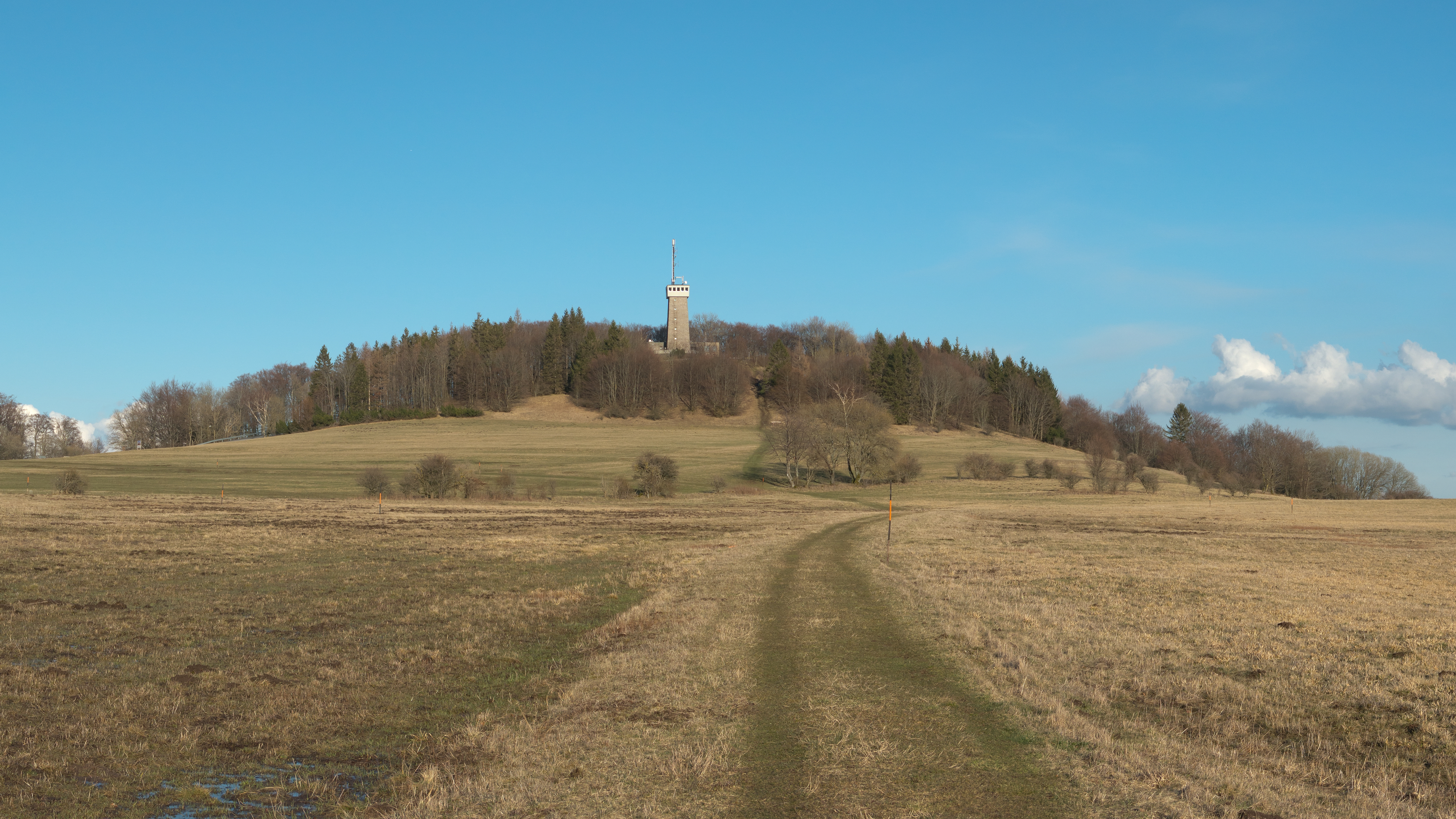 The Rother Kuppe in the Rhön Mountains seen from west